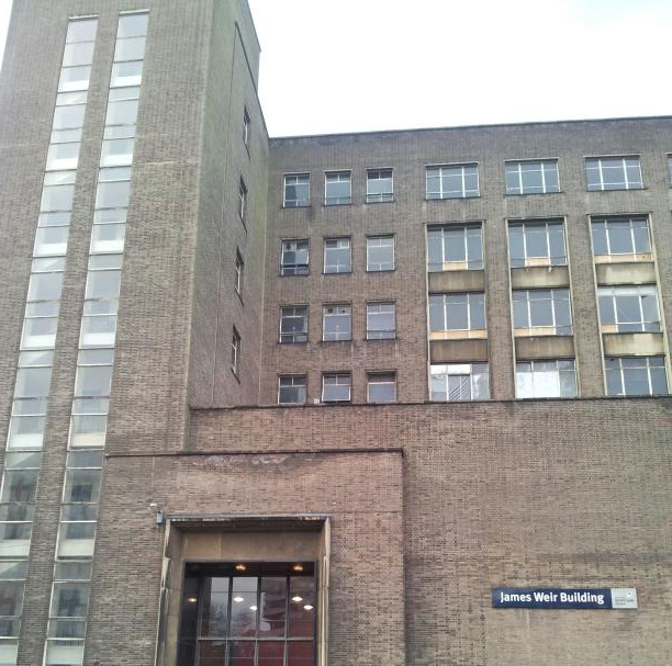 James Weir Building, University of Strathclyde, Glasgow